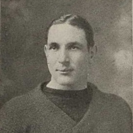 Picture of Tot McCullough from 1923 Vanderbilt Commodores Yearbook.